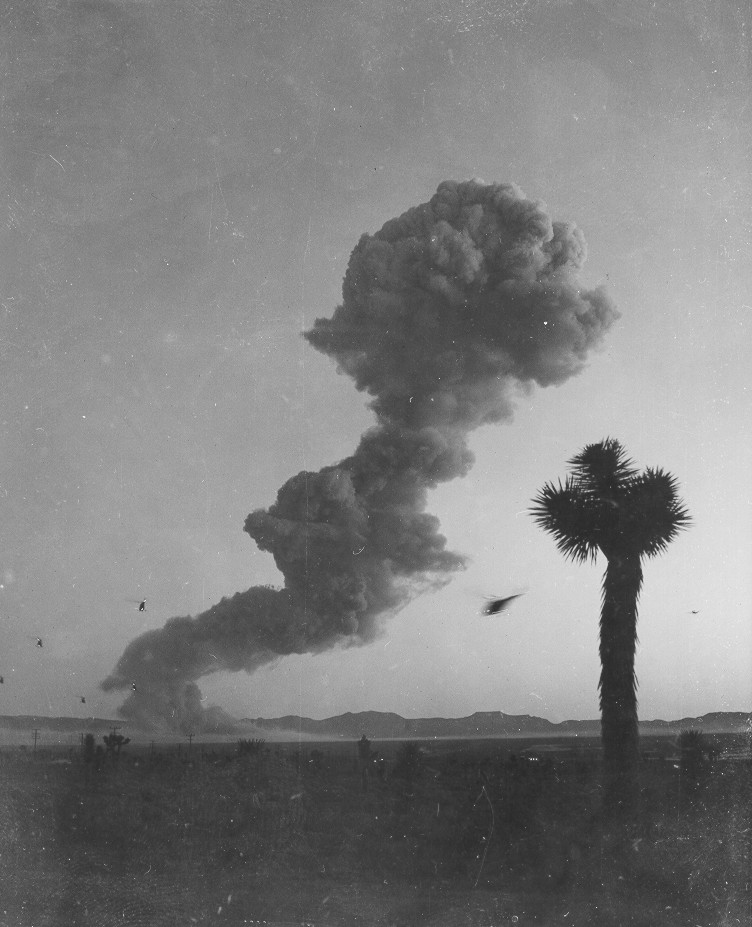 UPSHOT-KNOTHOLE/BADGER, NTS, tower test.